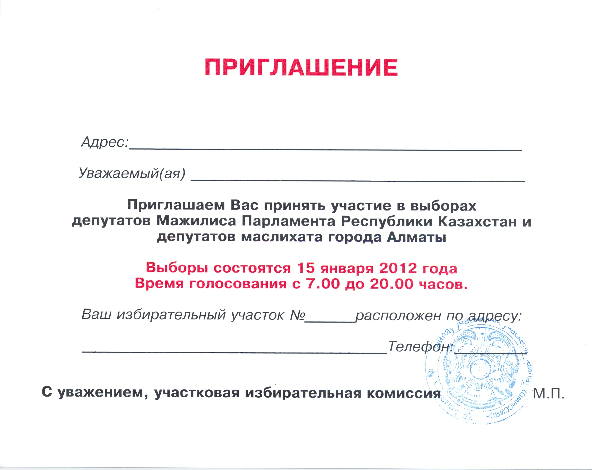 The invitation sheet for voting participating in 2012 Kazakhstani Legislative Election